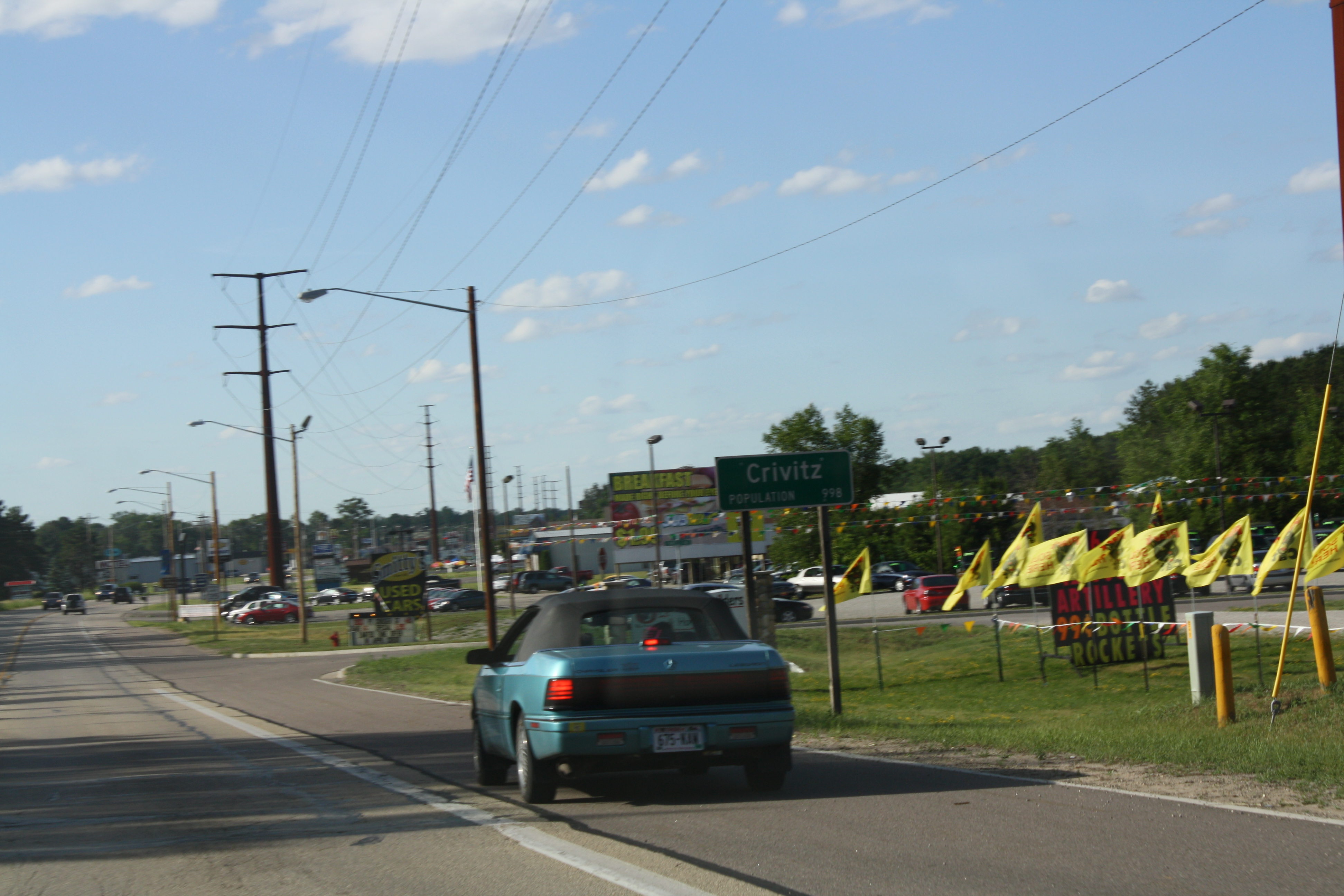 Looking north at the welcome sign for Crivitz, Wisconsin on U.S. Route 141.